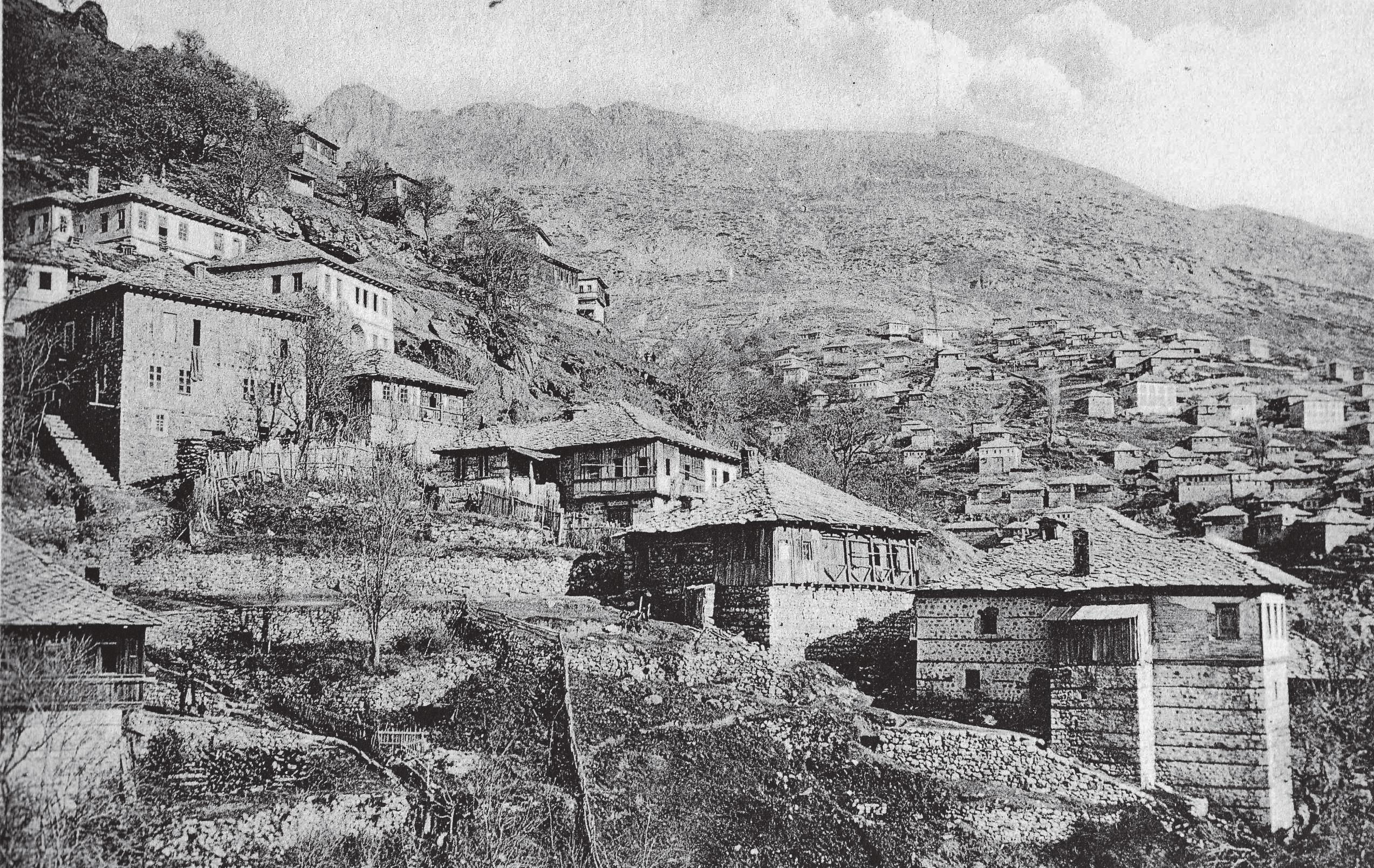 Galičnik, 1908